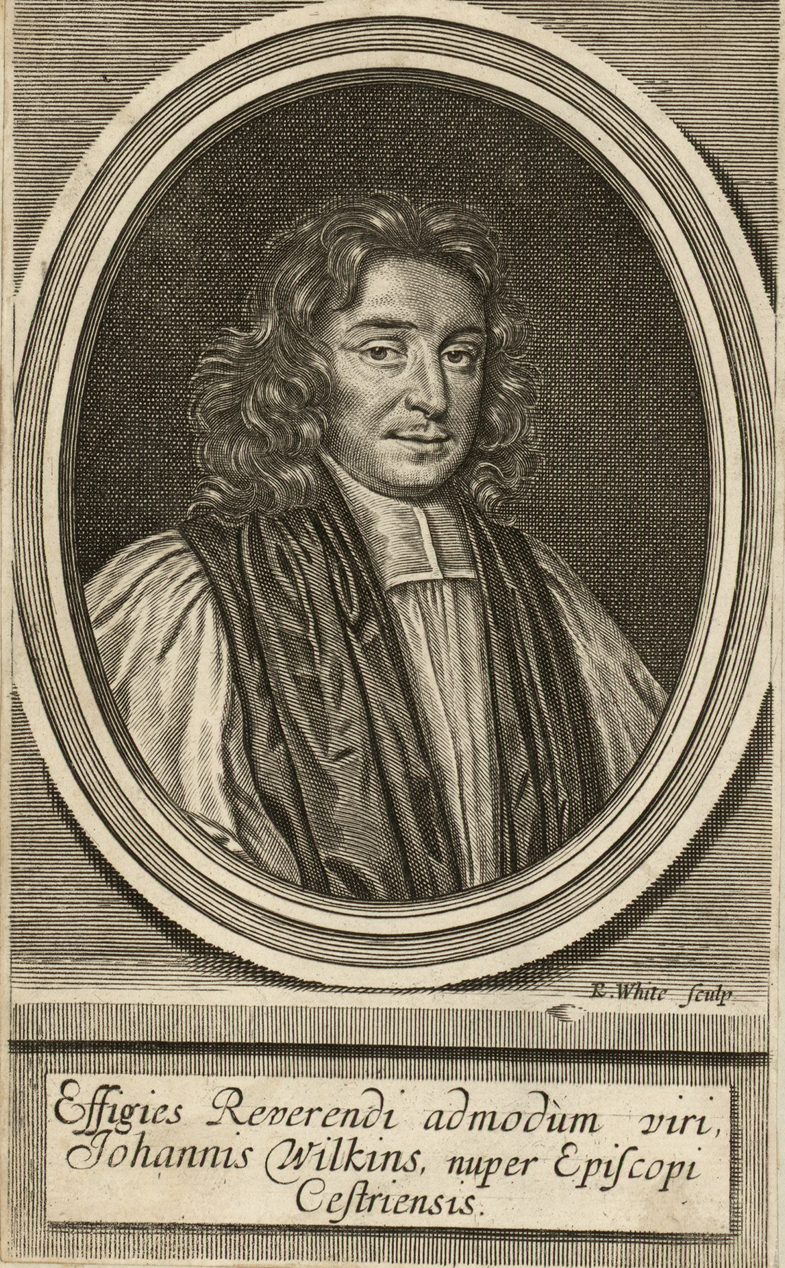 An image from a set of 8 extra-illustrated volumes of A tour in Wales by Thomas Pennant (1726-1798) that chronicle the three journeys he made through Wales between 1773 and 1776. These volumes are unique because they were compiled for Pennant's own library at Downing. This edition was produced in 1781. The volumes include a number of original drawings by Moses Griffiths, Ingleby and other well known artists of the period. Thomas Pennant (1726-1798)